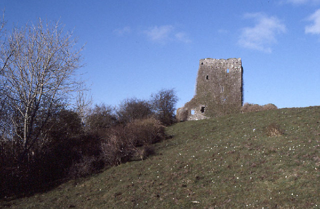 Castleburke, Ballintubber. This "castle" stands on a bluff overlooking Lough Carra; the redoubt of the Burkes.